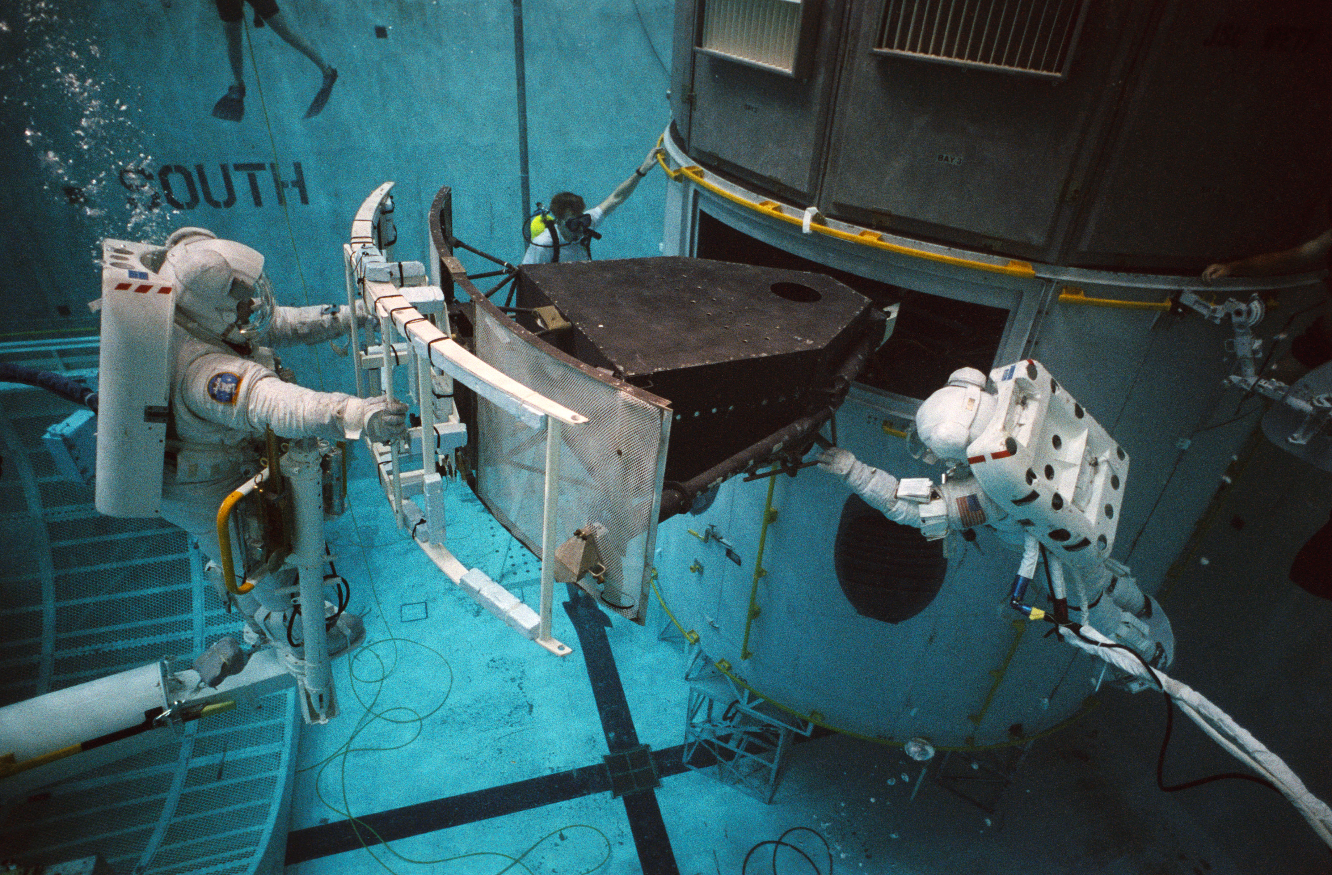 Astronauts F. Story Musgrave and Jeffrey A. Hoffman, in training versions of the Space Shuttle Extravehicular Mobility Unit, use JSC's Weightless Environment Training Facility to rehearse for the Hubble Space Telescope repair mission. The two are working with a full-scale training version of the Wide Field/Planetary Camera.